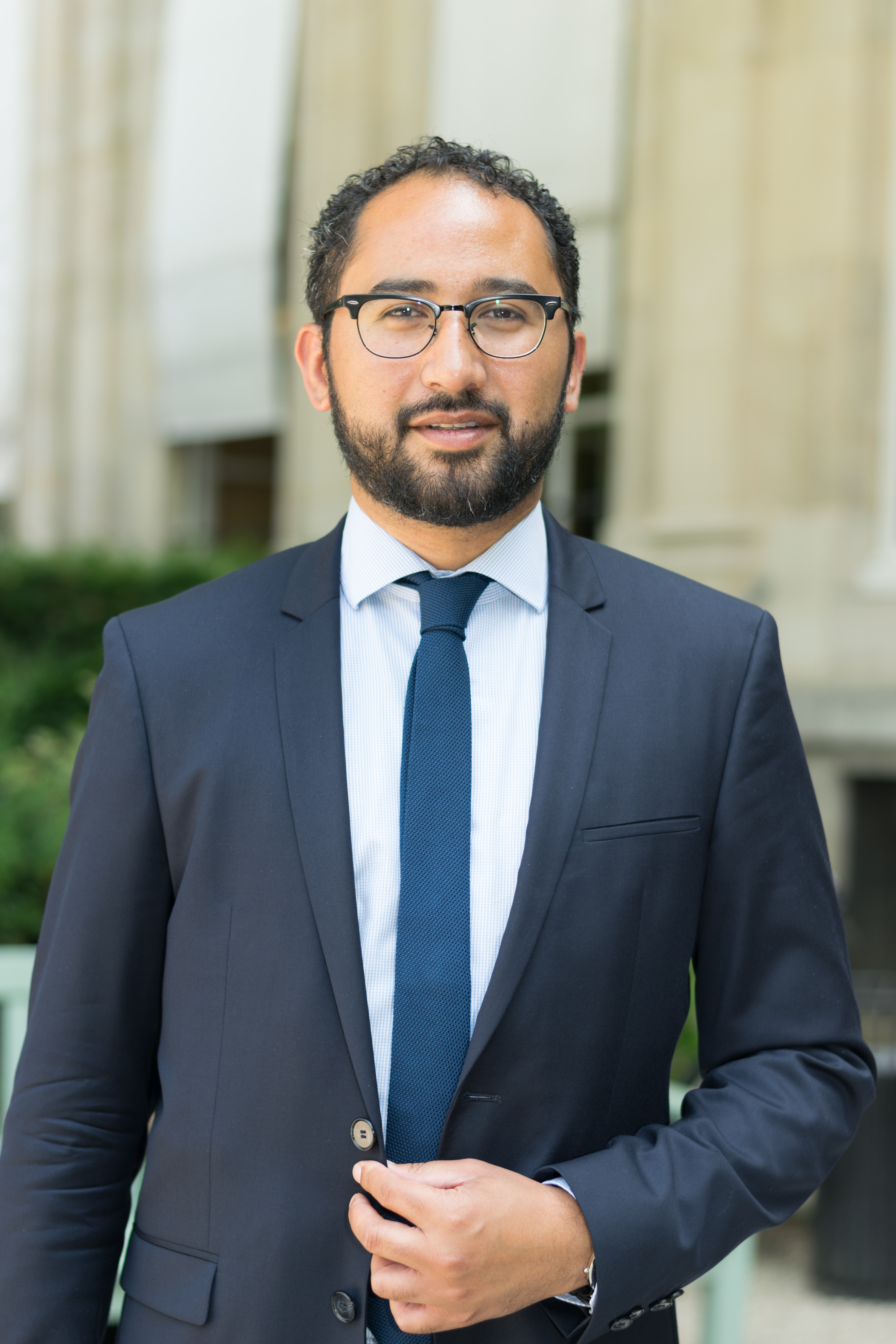 Guillaume Chiche in the garden of the Quatres Colonnes in the Palais Bourbon (Paris, France).